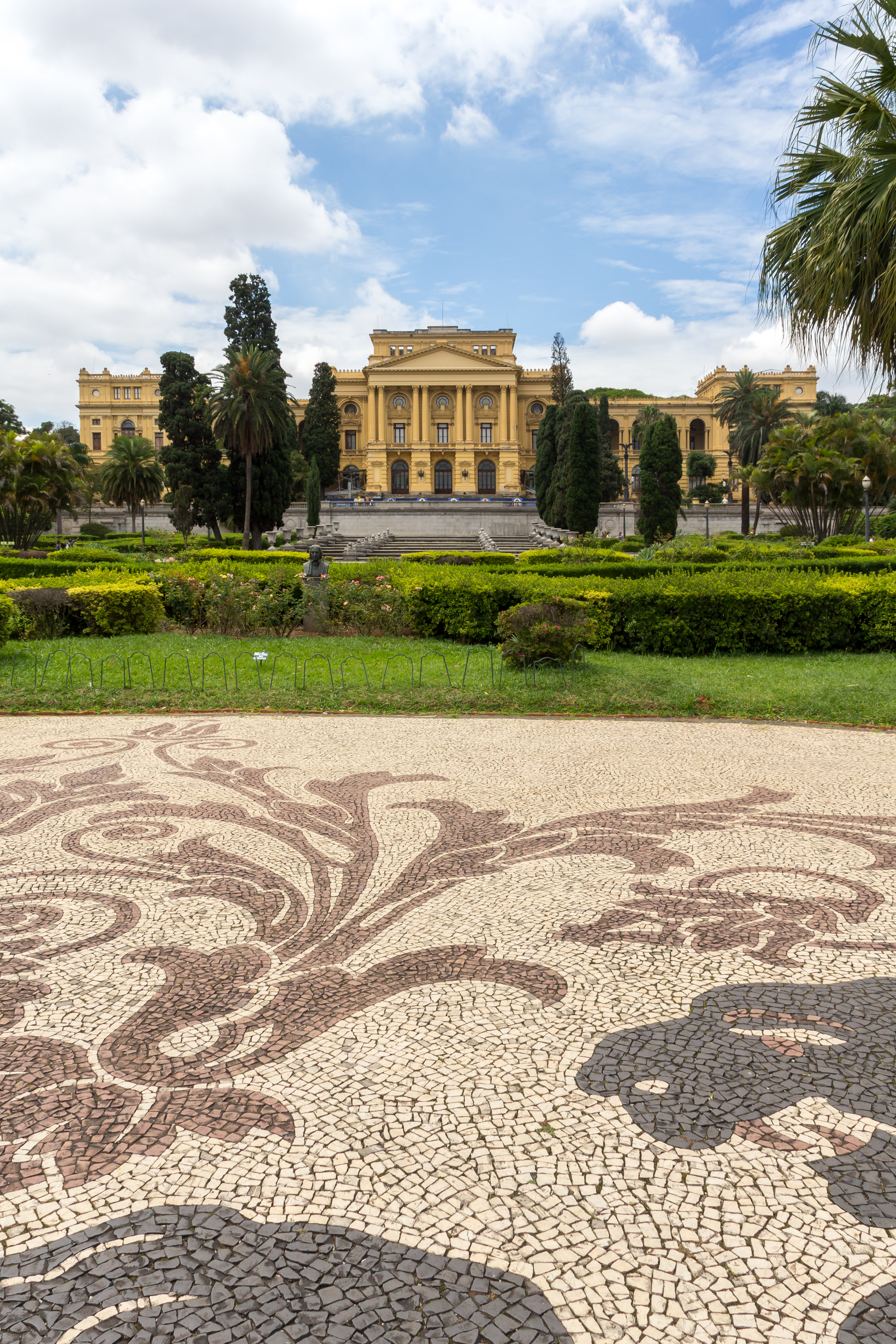 Museu Paulista, São Paulo, Brazil.